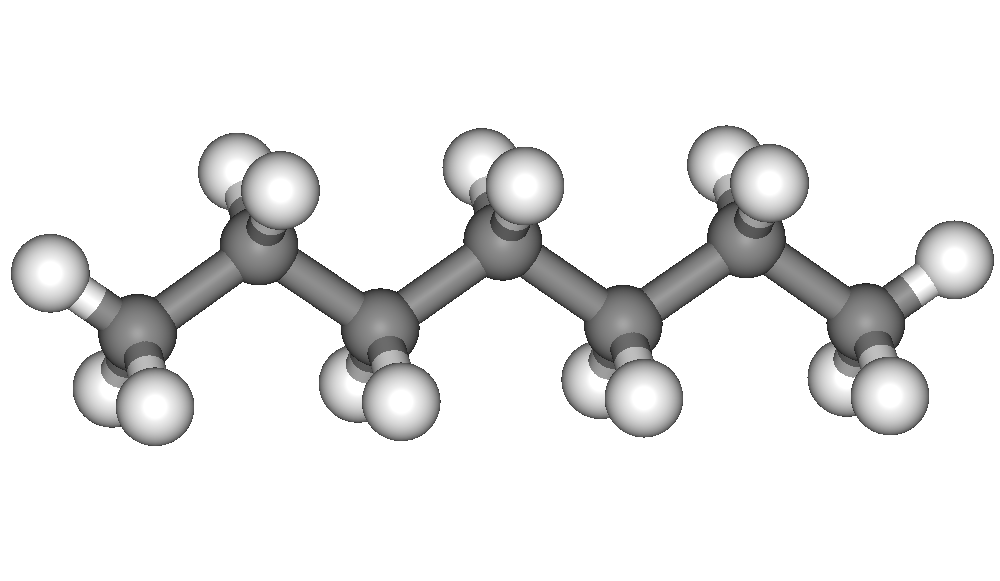 Chemical structure of heptane created with ChemDraw.